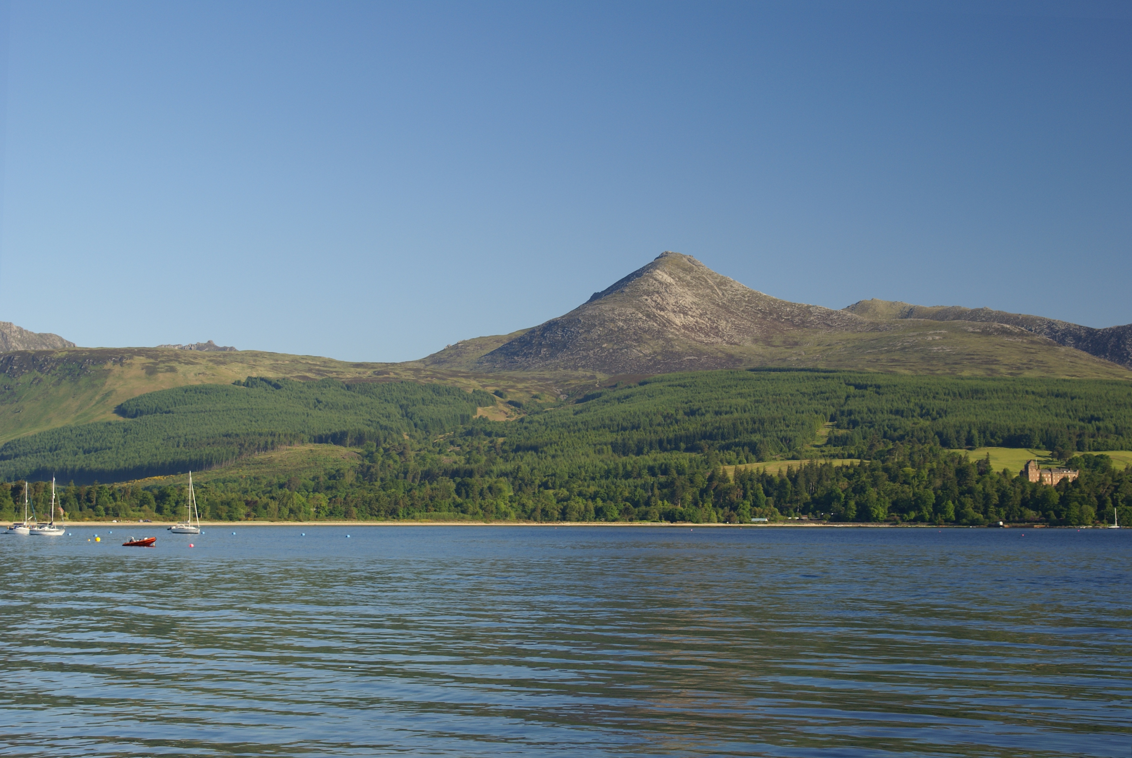 Goatfell seen from Brodick Harbour, Isle of Arran